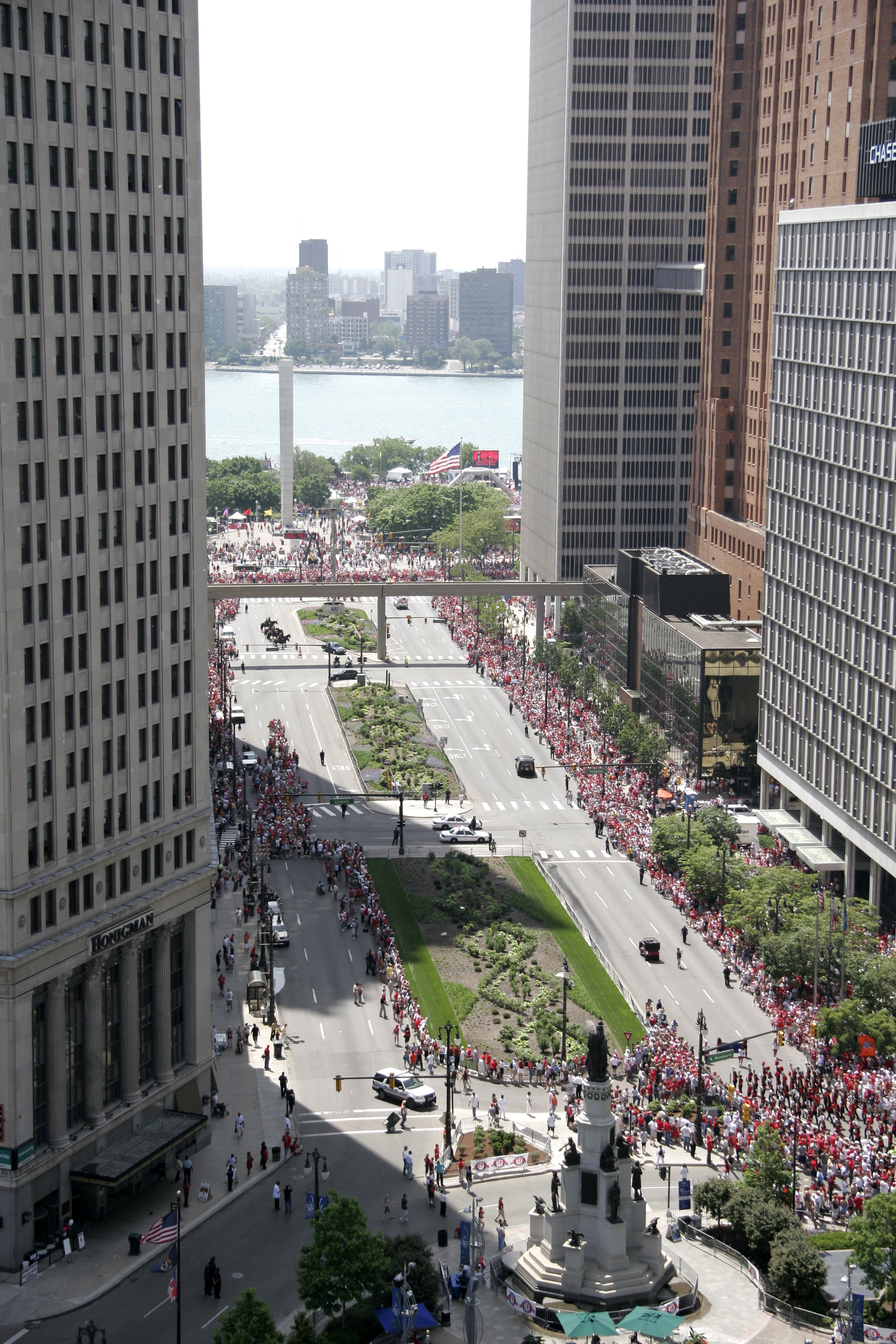 Through a canyon of skyscrapers one can see the 2008 Red Wings Stanley Cup Victory Parade and some of the 1million people that came to celebrate. The Skyline on the other side of the river is Canada, one of the only locations where Canada is actually south of the United States. The park at the foot of Woodward Avenue, Hart Plaza, is where the Ford Motor Company was established in the offices of what was a coal yard of Alexander Malcomson, an investor. This same general location was the end of the road for the slaves taking the Underground Railroad to freedom in Canada and where French explorer Cadillac landed and established the City of Detroit over 300 years ago.